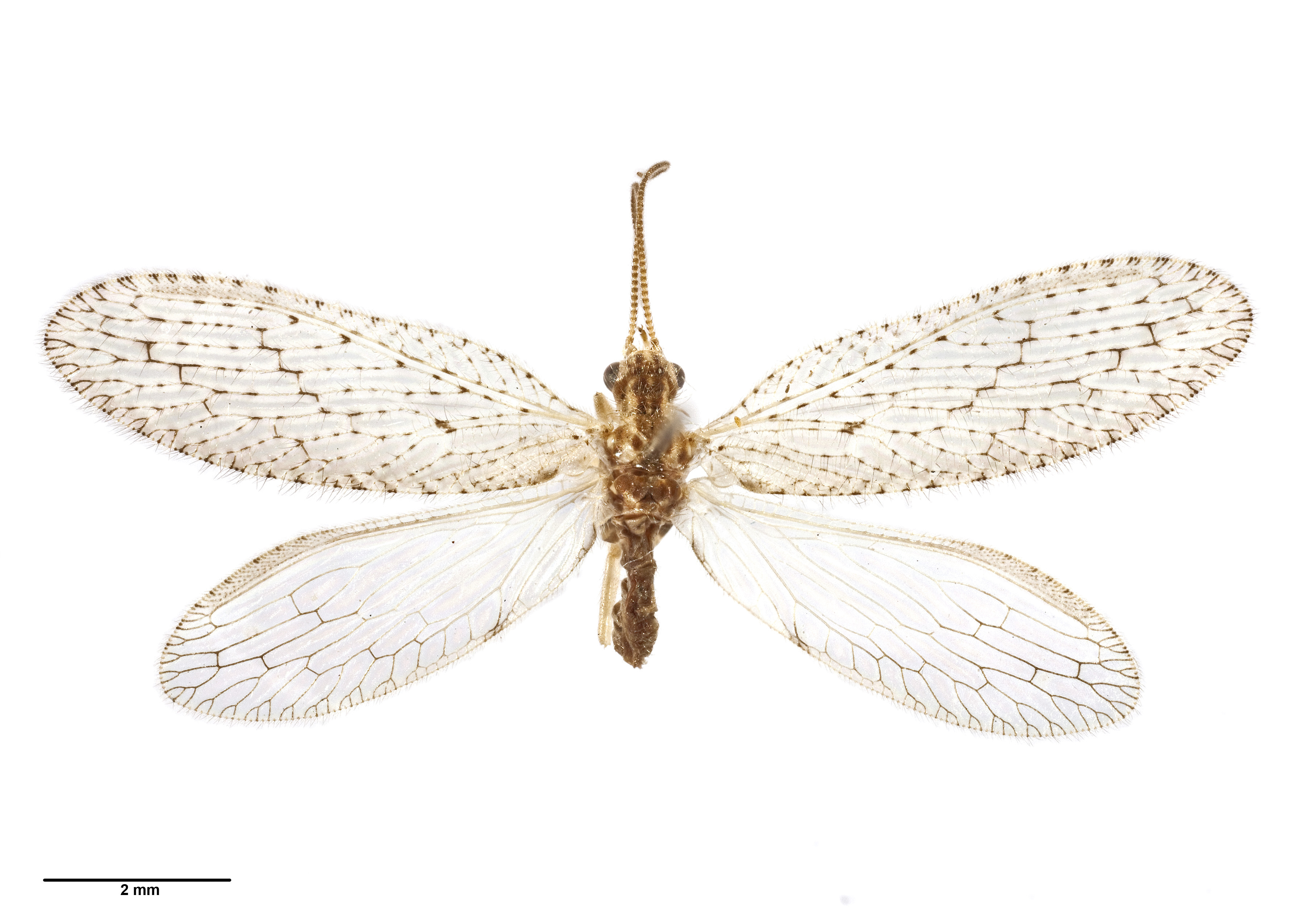 Female specimen of Micromus tasmaniae AMNZ75467 held at the Auckland War Memorial Museum.